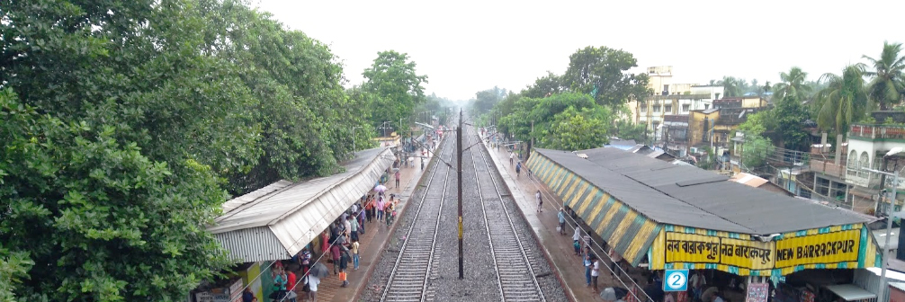 New Barrackpur